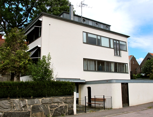 House in the Prytzgatan in Örgryte in Göteborg by Ingrid Wallberg and Alfred Roth, R&W